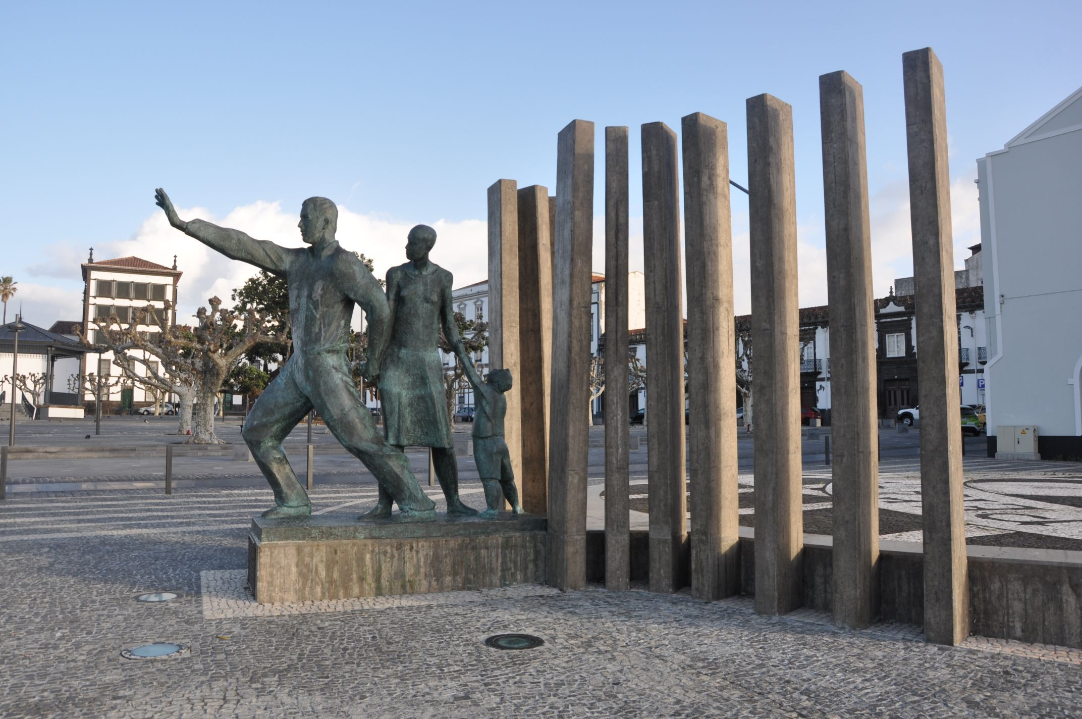 Monument to the Emigrants, Ponta Delgada. Sculptor: Álvaro Raposo de França